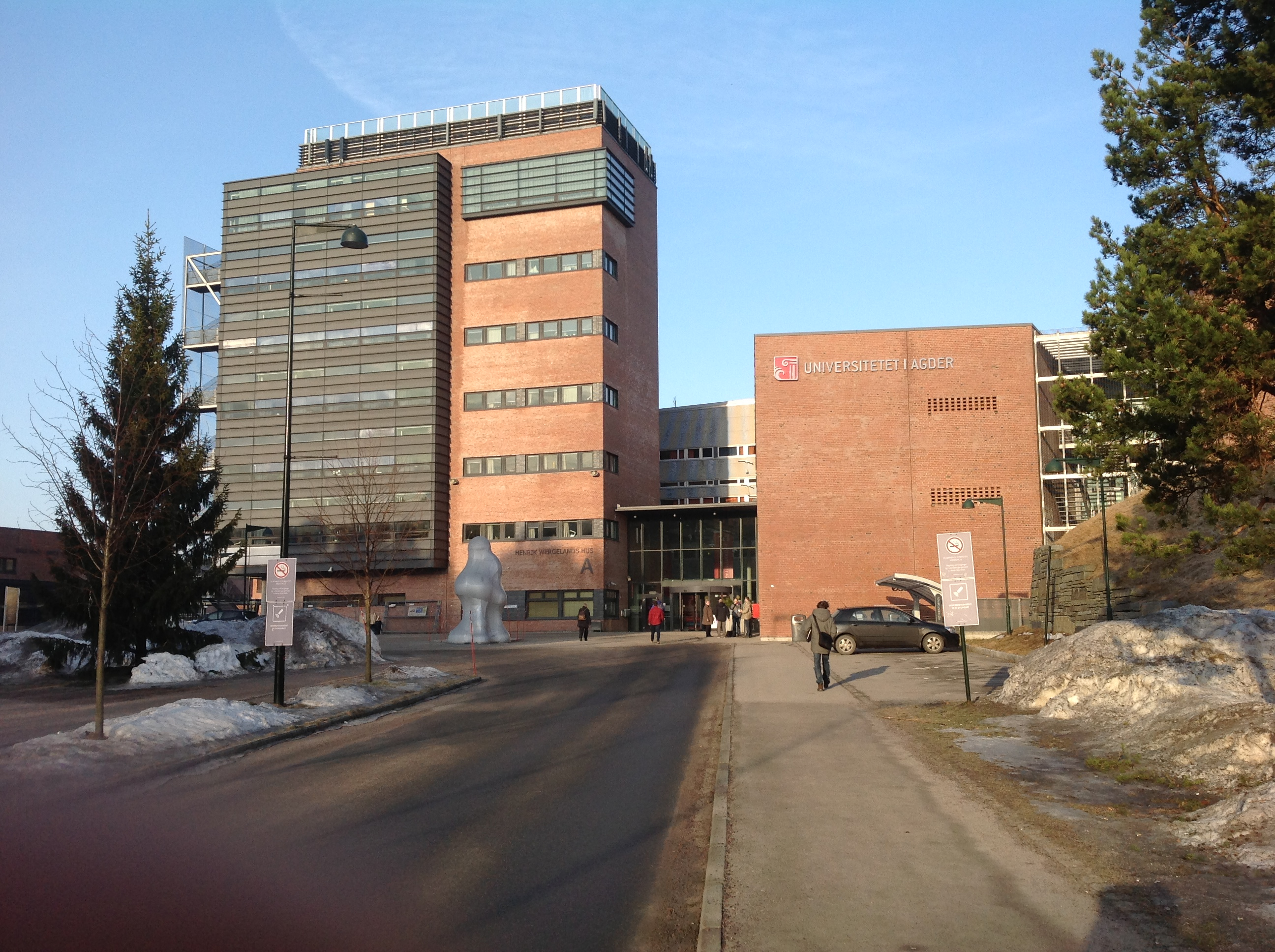 Main entrance, Universitetet i Agder, Campus Kristiansand